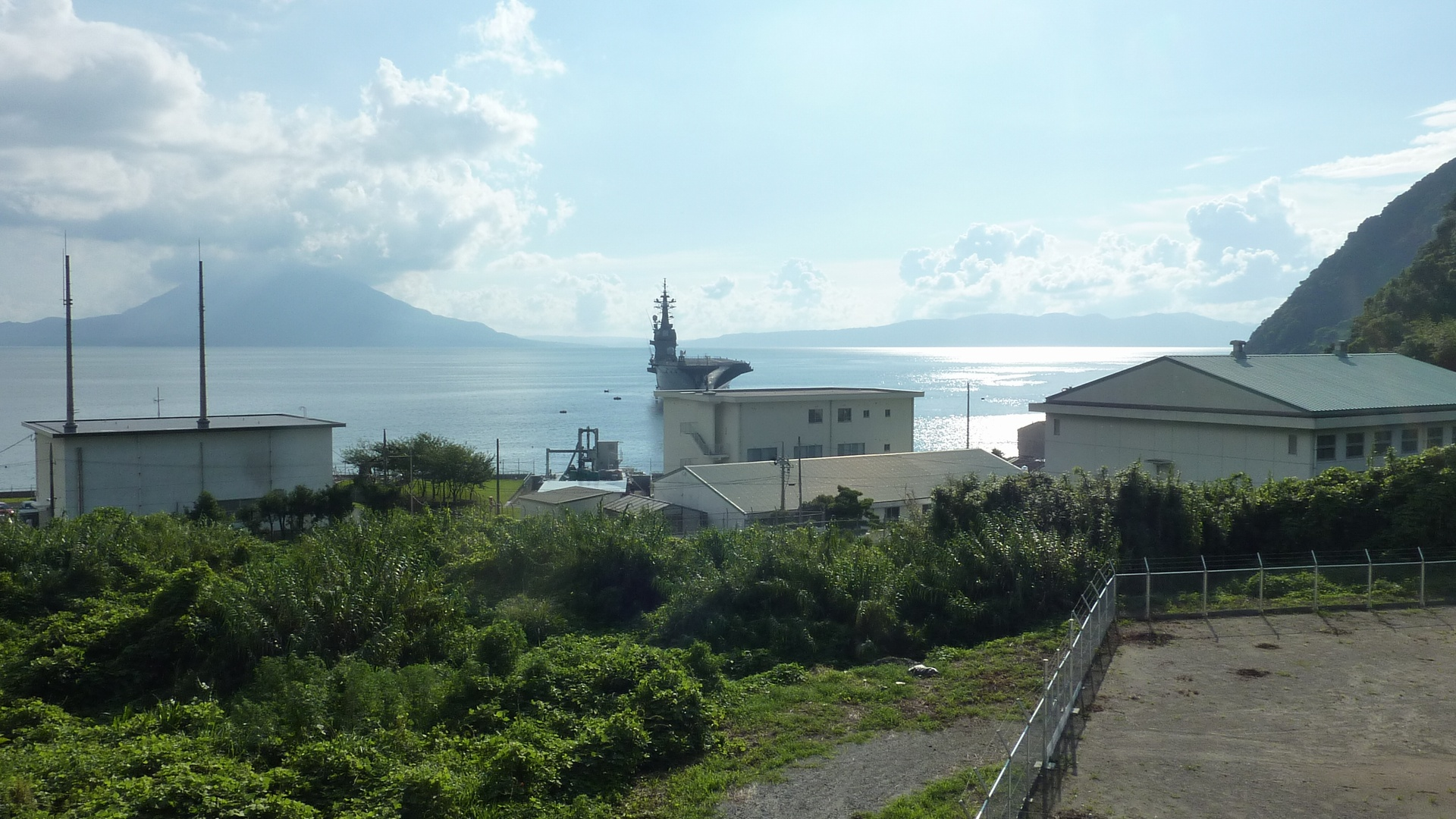 JMSDF Kagoshima Testing Laboratory (Kirishima City, Kagoshima Prefecture, Japan)